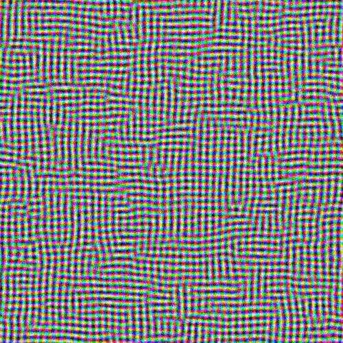 Started with random pixels. Simulated annealing by swapping pairs of pixels, slow cooling Similar colour pixels attract at short range, repel at slightly less short range.